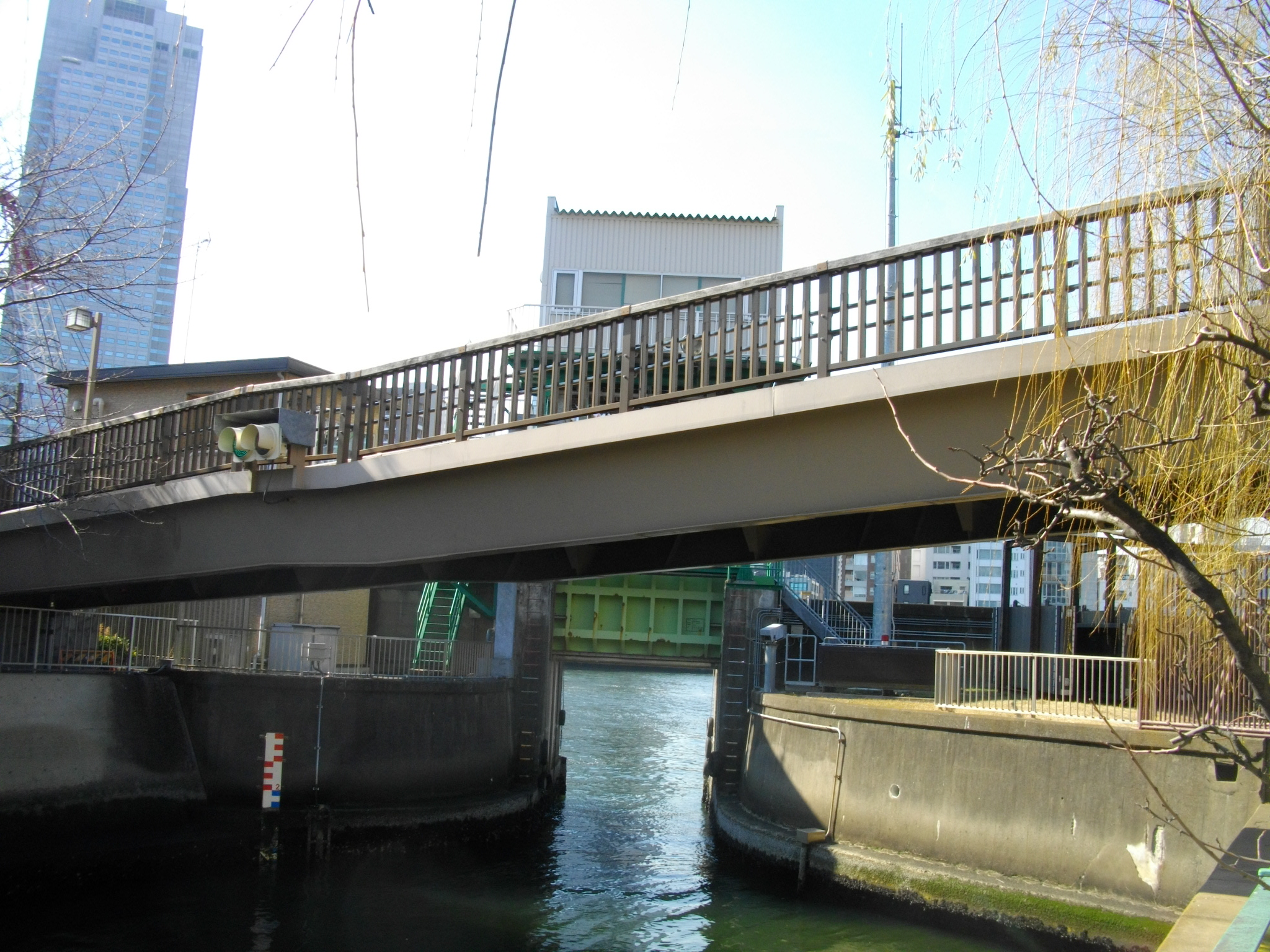 Sumiyoshi-Kobashi